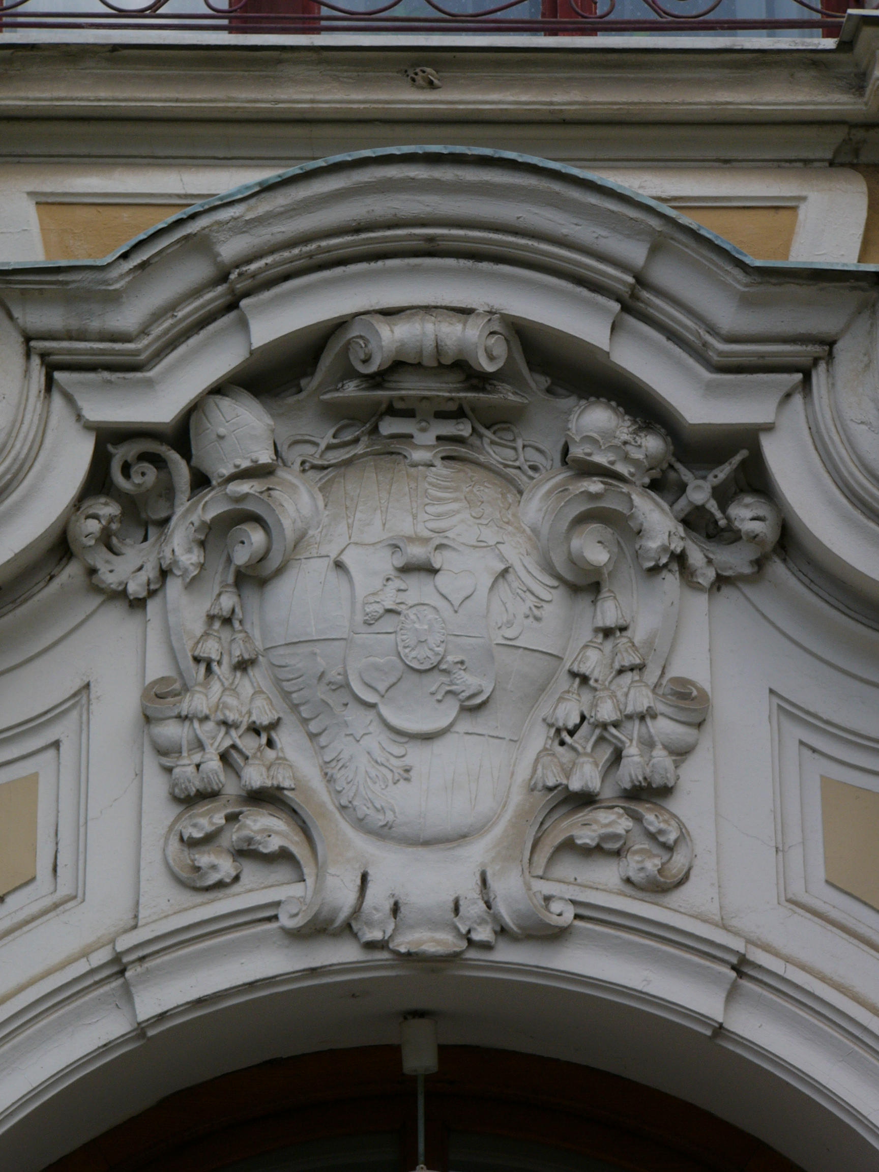 Coat of arms of bishop of Olomouc Ferdinand Julius von Troyer in portal in Biskupské náměstí square in Olomouc (Czech Republic).